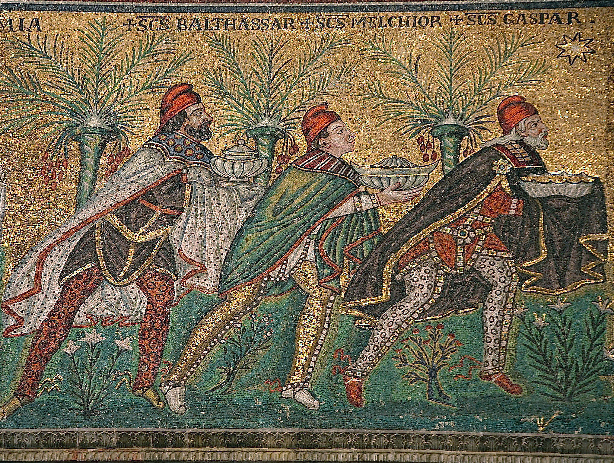 Basilica of Sant'Apollinare Nuovo in Ravenna, Italy: The Three Wise Men" (named Balthasar, Melchior, and Gaspar). Detail from: "Mary and Child, surrounded by angels", mosaic of a Ravennate italian-byzantine workshop, completed within 526 AD by the so-called "Master of Sant'Apollinare".